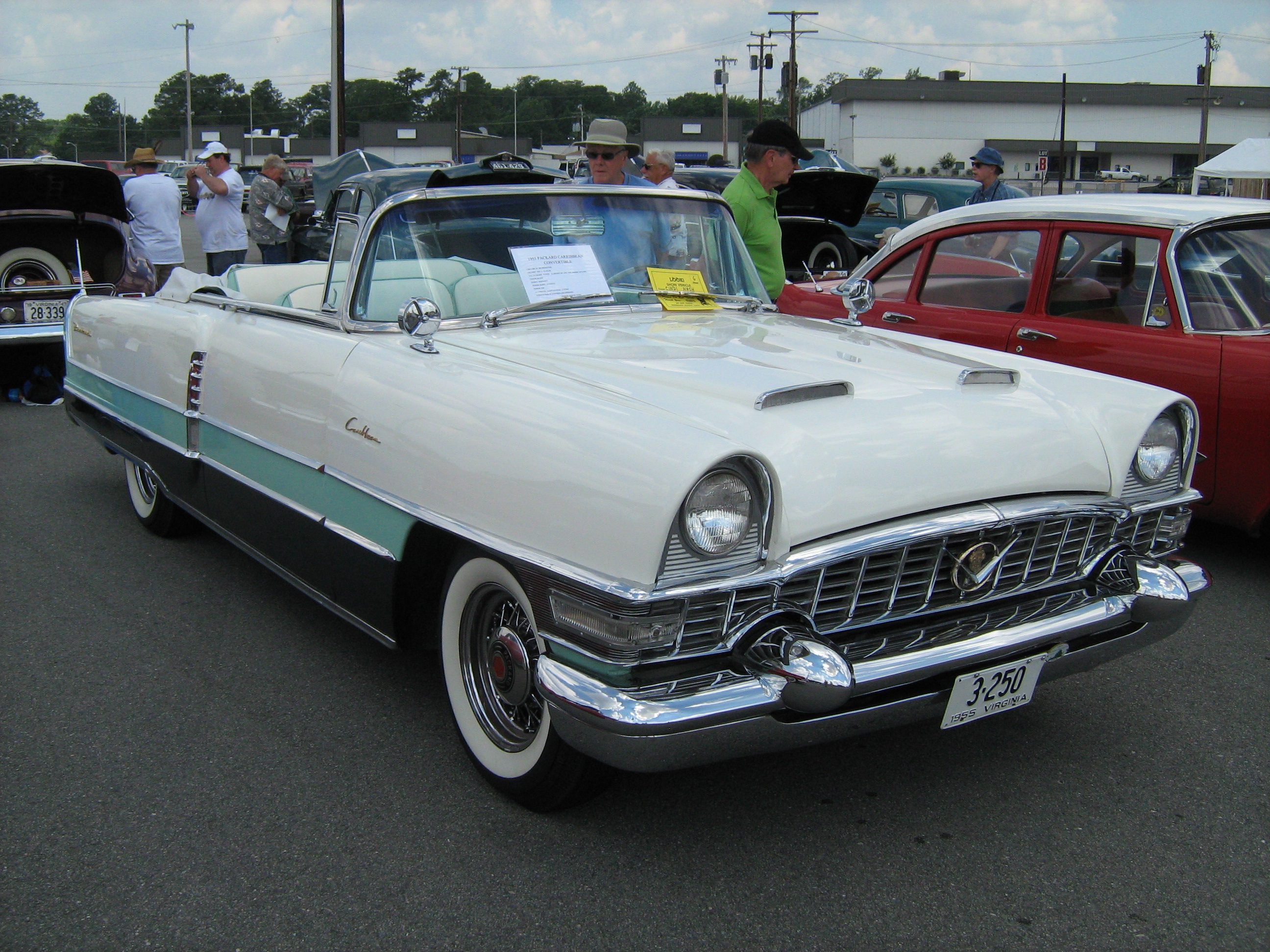 1955 Packard Caribbean convertible.